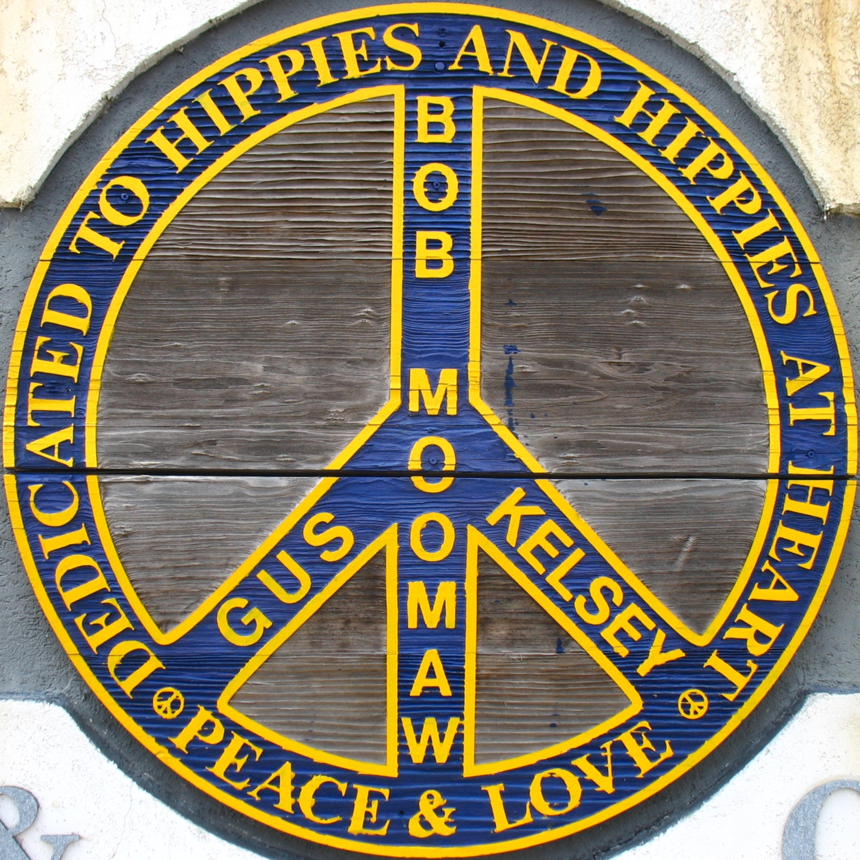 A close-up of the center piece of Bob Moomaw's "Hippie Memorial", a 62-foot sculpture in downtown Arcola, Illinois.